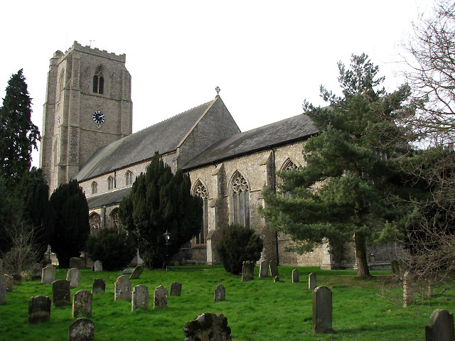 St Andrew's Church. Hingham, Norfolk